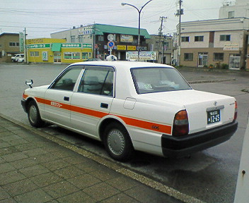 Toyota Comfort for Jukan Taxi Noheji Office at Noheji Station